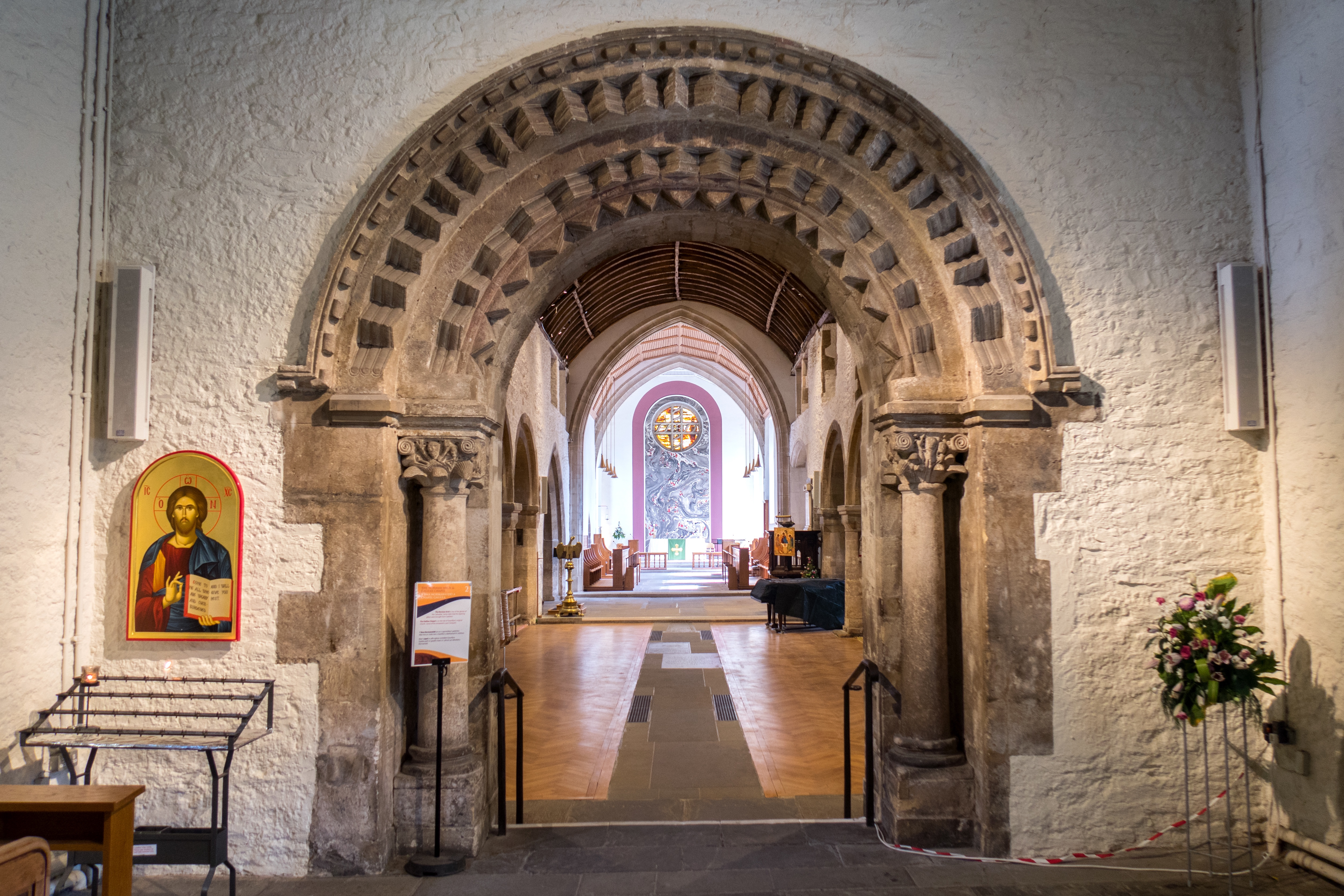 St Woolos Cathedral, NewportCymraeg: Eglwys Sant Woolos, Cymru